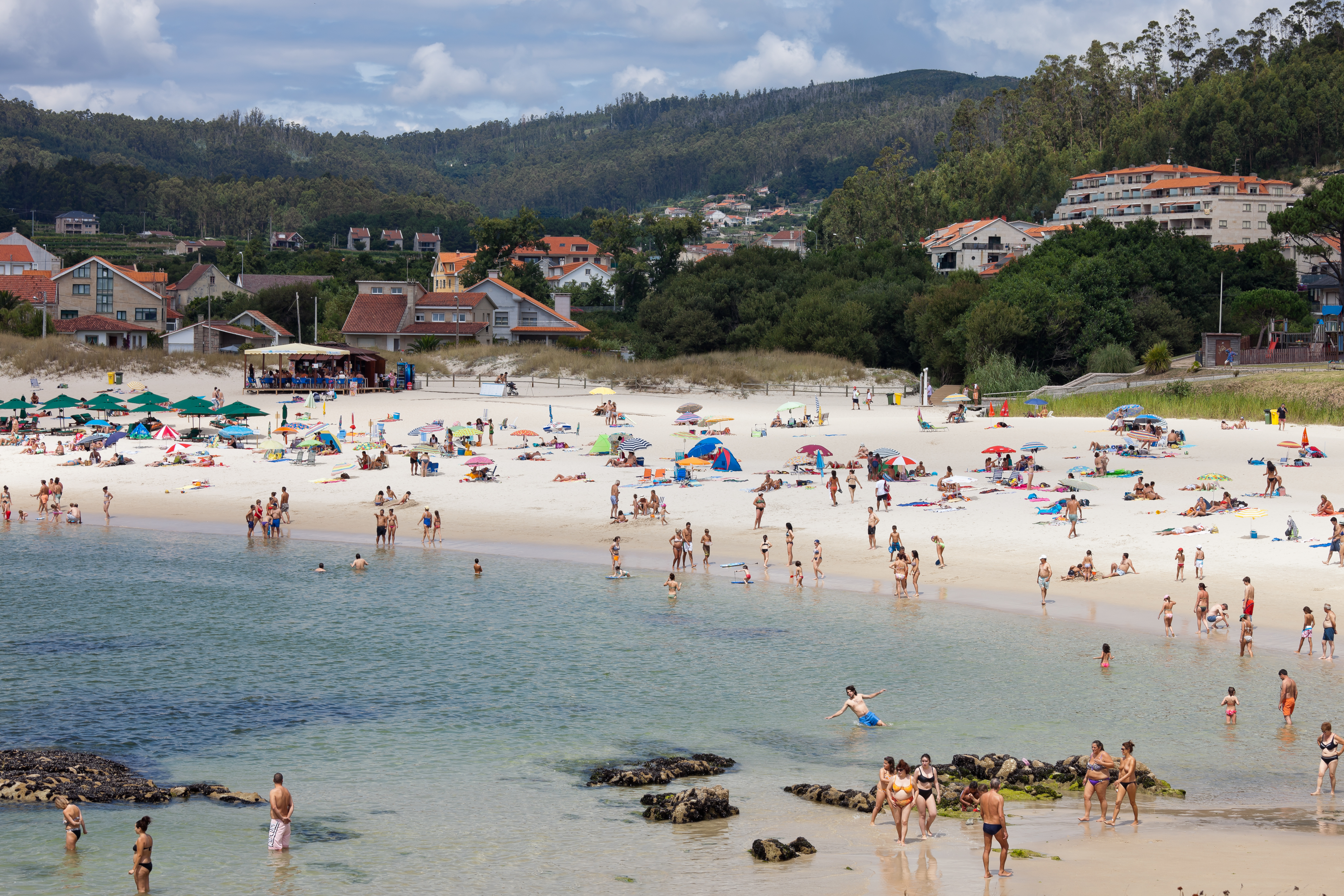 Beach of Areas, Sanxenxo, Galicia (Spain)